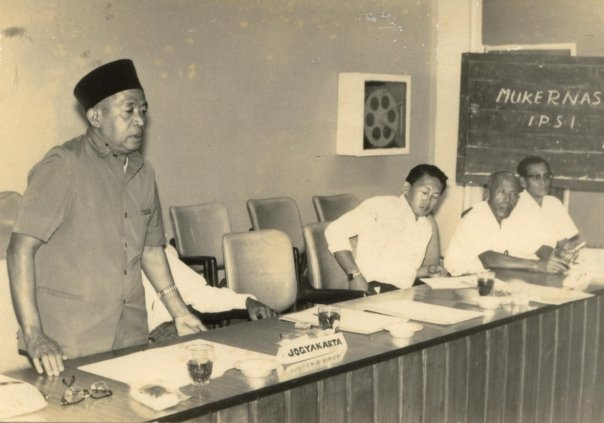 foundation Perisai Diri at IPSI (Ikatan Pencak Silat Indonesia)